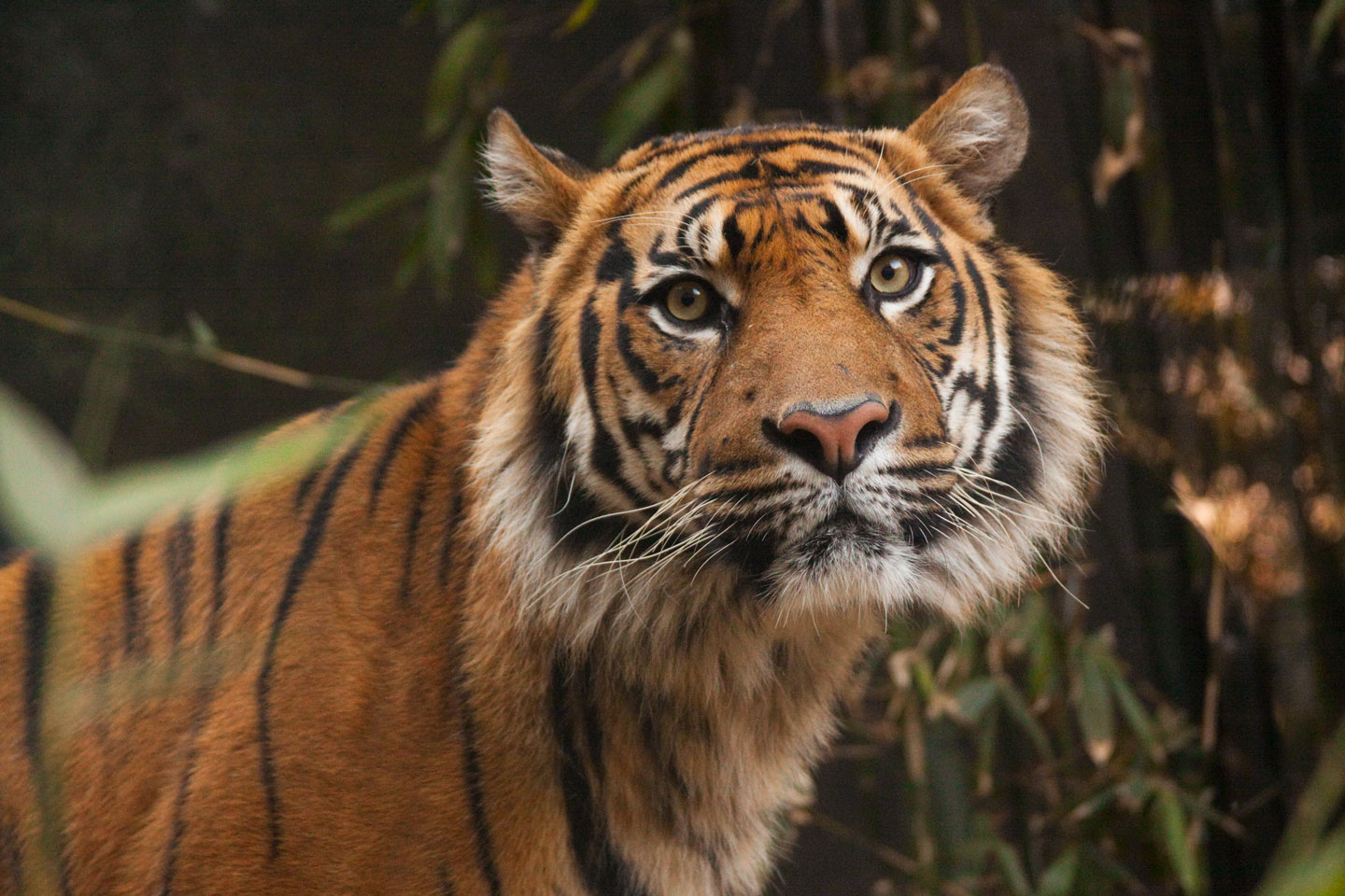 4-year-old male Sumatran tiger, at Taronga Zoo in Sydney, NSW, Australia.